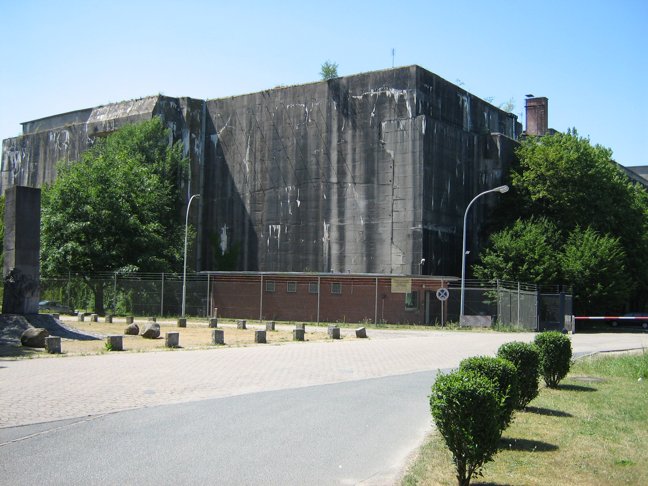 Submarine bunker Valentin in Bremen, BRE, Germany